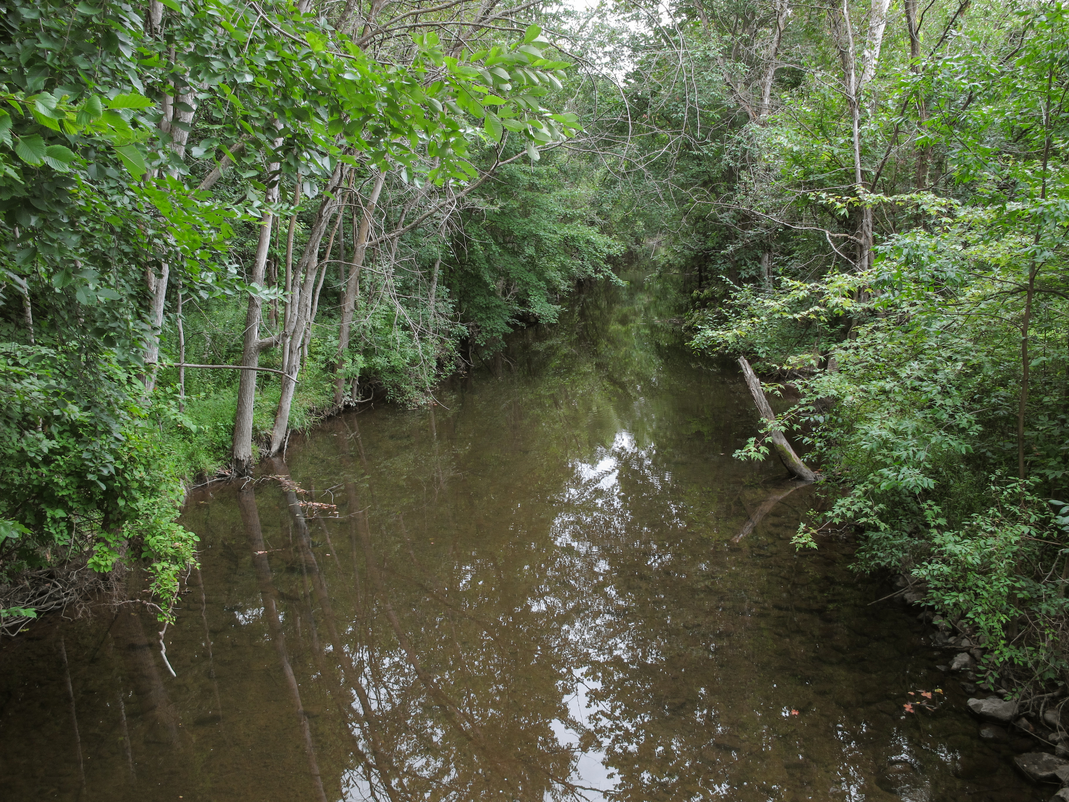 The Coldwater River as viewed from the east side of North East Street in Freeport, Michigan